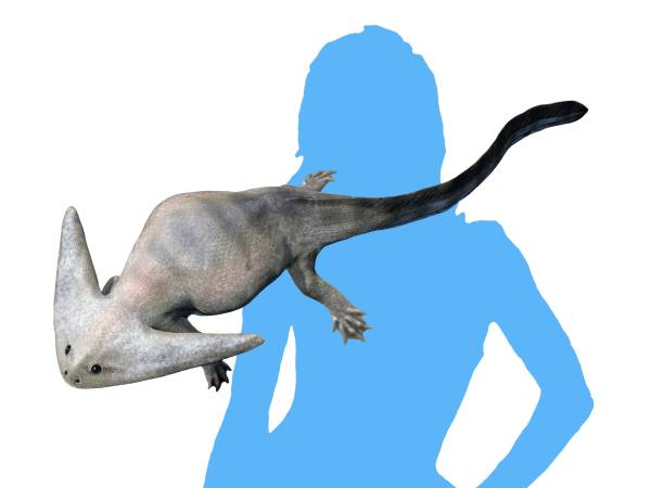 Life reconstruction of Diplocaulus magnicornis